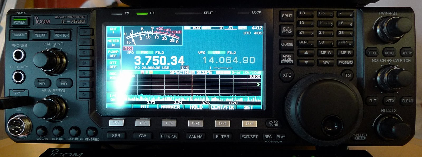 ICOM IC-7600 amateur radio transceiver